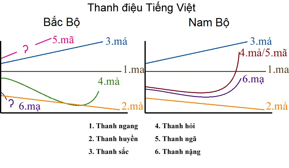 6 (5) tones of Vietnamese language with the comparison between northern and southern dialects. Based on the "File:VNtone.jpg" .